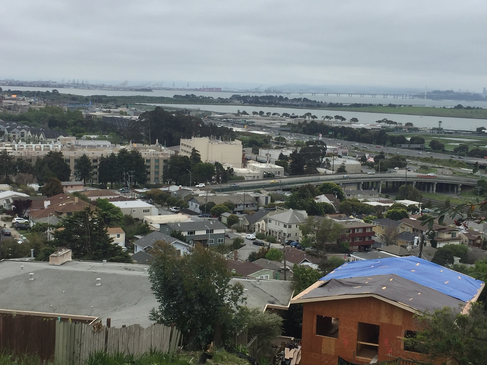 Albany seen from Albany Hill